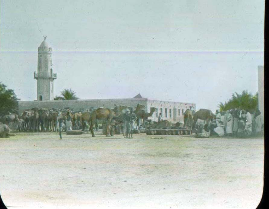 The start of the expedition. People, camels. 1896. Name of Expedition: Africa Expedition Participants: D.G. Elliot and Carl Akeley Expedition Date: 1896 Purpose or Aims: Zoology Mammals Location: Africa, Somalia, Woqooyi Galbeed, Berbera Original material: Hand-colored glass lantern slide Digital Identifier: CSZ6056_LS Learn more about The Field Museum's Library Photo Archives.